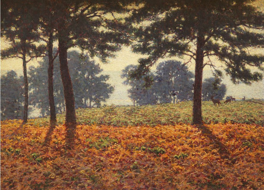 Evening Shadows by Wynford Dewhurst, 1899, oil on canvas, 72 x 99 cm., private collection